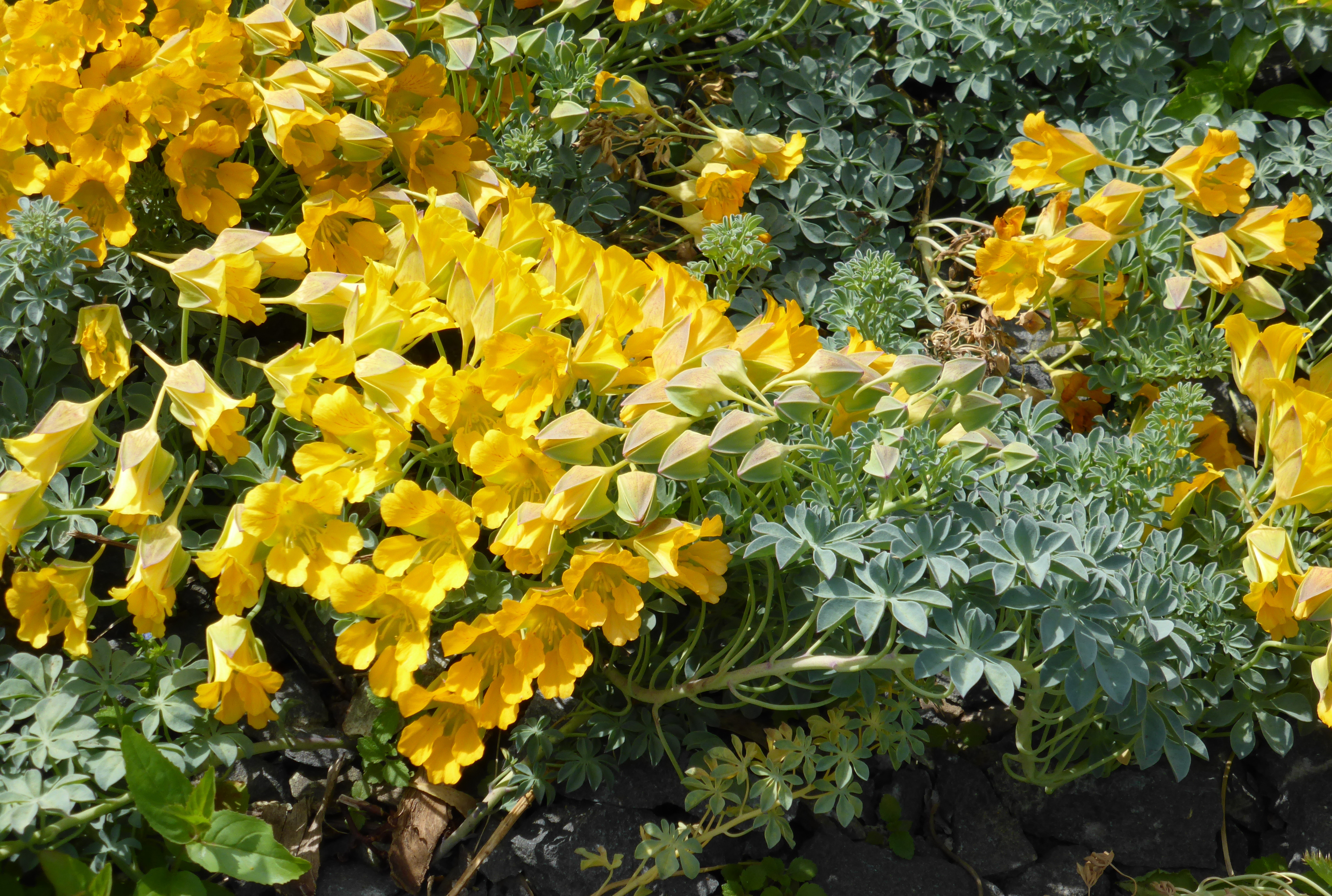 Tropaeolum polyphyllum - Perennial Nasturtium, at VanDusen Botanical Garden